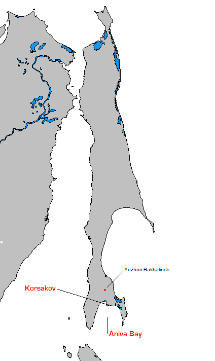 Location of Aniva Bay and the town Korsakov and city Yuzhno-Sakhalinsk on the map of Sakhalin, Russia, created using MSFT Paint